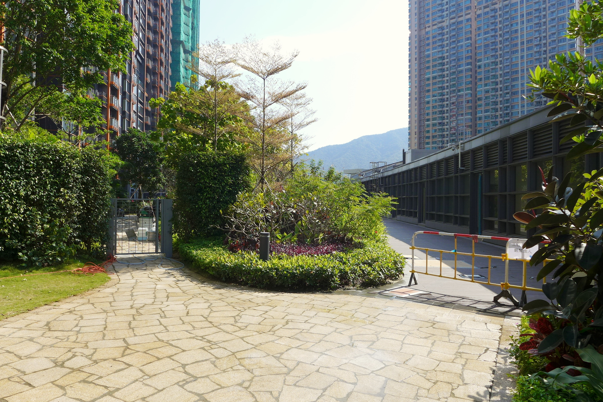 Double Cove Place F&B Area